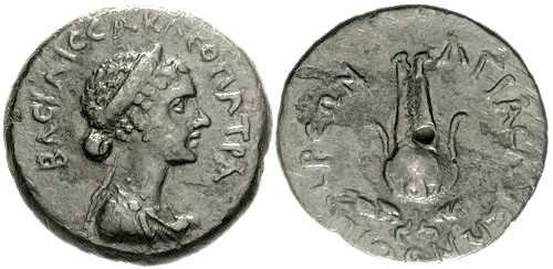 Cleopatra VII. 51-30 BC. Æ Hemiobol of Patra – Hexachalkon (21mm, 5.01 g). Agias, son of Lyson, magistrate. Struck circa 32/1 BC. Inscription ΒΑΣΙΛΙΣΣΑ ΚΛΕΟΠΑΤΡΑ (Queen Cleopatra), diademed and draped bust right / Crown of Isis.